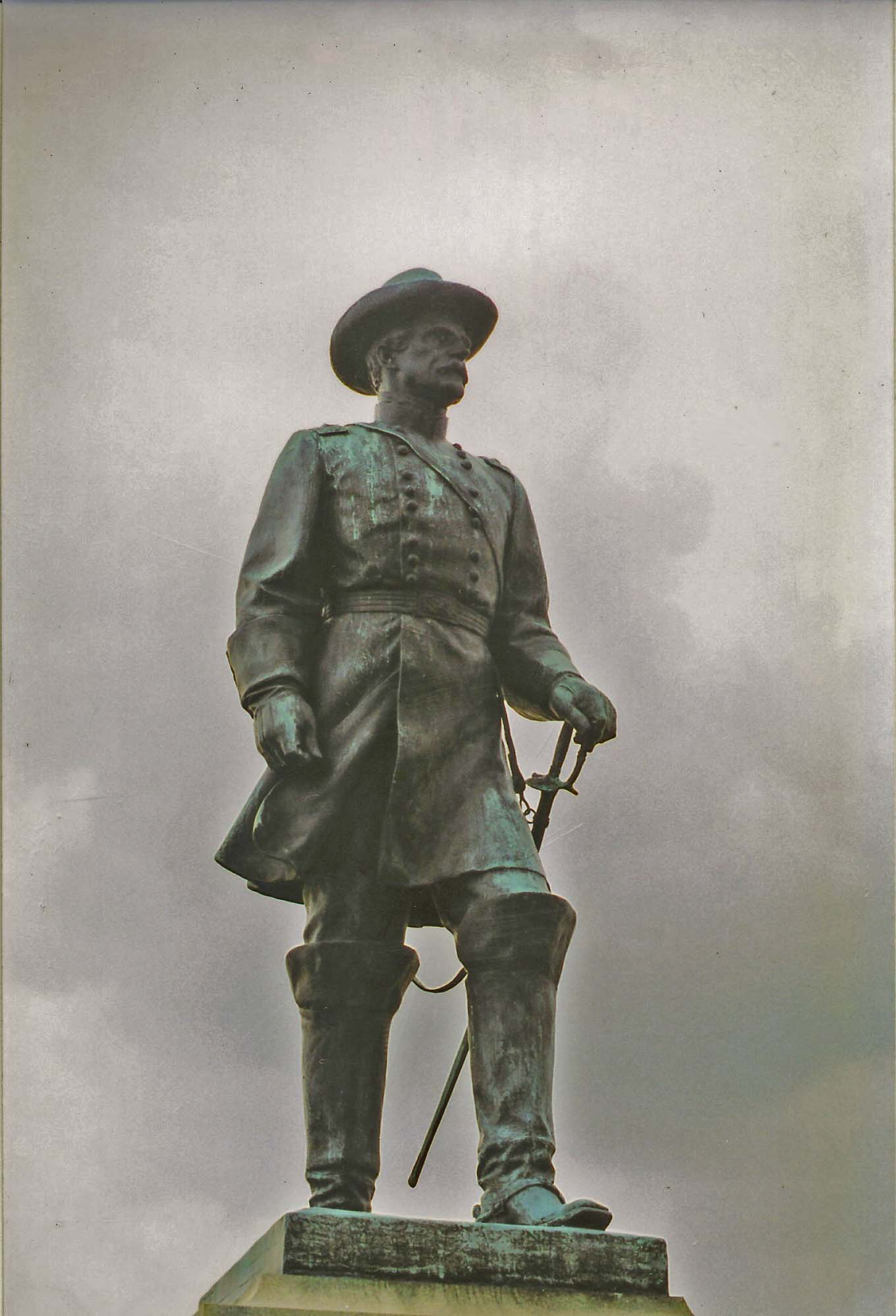 Gen A. A. Humphreys statue by J. Otto Schweizer (1919) at Gettysburg Battlefield